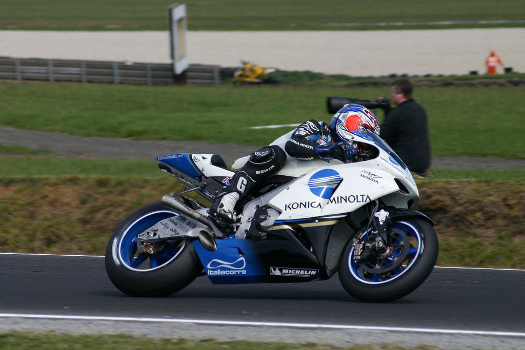 Makoto Tamada at the 2006 Australian Grand Prix.